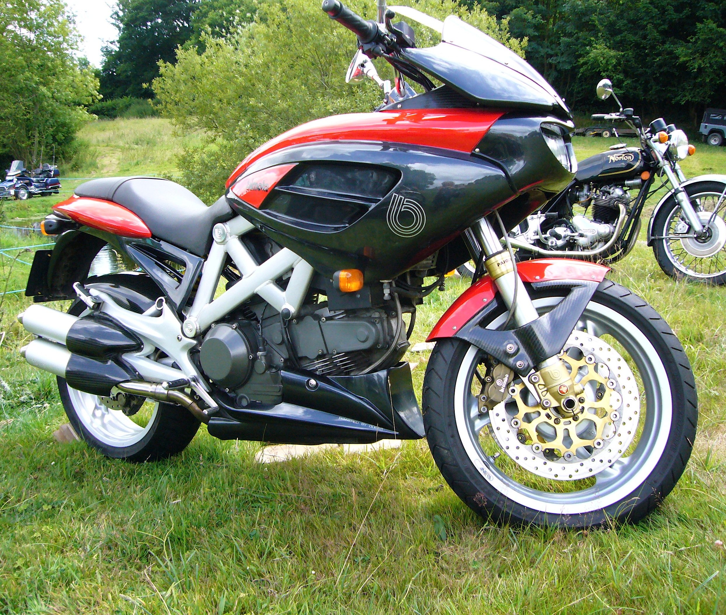 Bimota DB3 Mantra Launched in 1994 it has a 90 degree shoc 4 valve V twin engine with 86 HP at 7000 rpm. With a maximum torque of 9.2kg at 5700 rpm. Alloy Oval Section Tube Trellis Type Frame. Alloy Cantilever Swinging Arm. Paioli 43mm Front Forks, Brembo 320mm Double Disk Brakes & Brembo 230mm single disk rear brake and Antera Alloy Wheels. Bodywork is Glass Fibre, with carbon fibre trim. Almost all of the bikes produced were Yellow & Dark Grey and only a few were Red like this one. The bike has a Dry Weight of only 173 KG's which is less than most of today's bikes of similar size. Price at launch was 27,500.000 lira (1994) ! The Bimota DB3 Mantra was engineered & designed by Pier Luigi Marconi